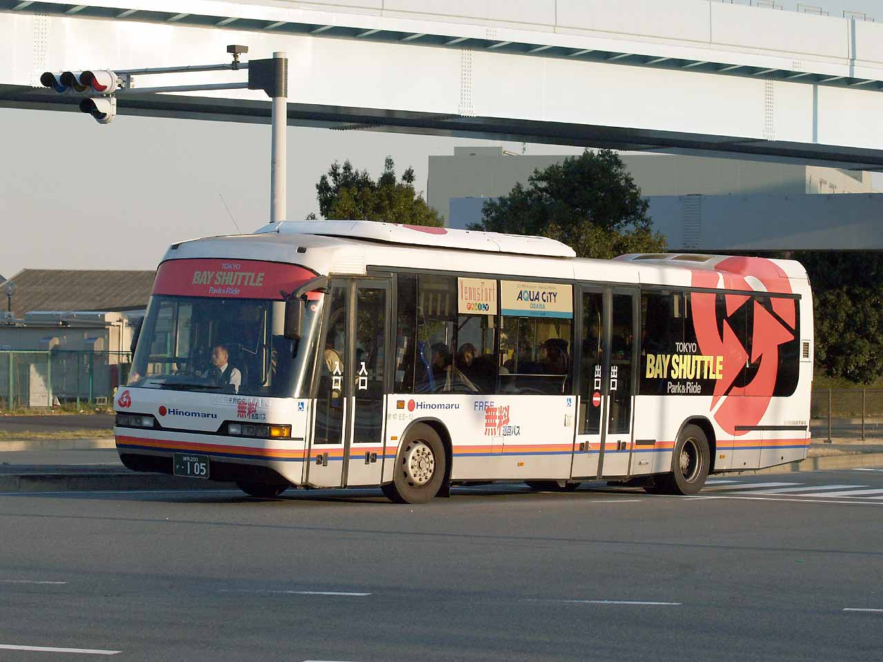 Fleet of Tokyo Bay Shuttle. Model: Neoplan N3016/2 License plate: TKN200 KA-105（練馬200か・105） Place: Neighbour of Venus Fort: Aomi, Koto ward, Tokyo Japan